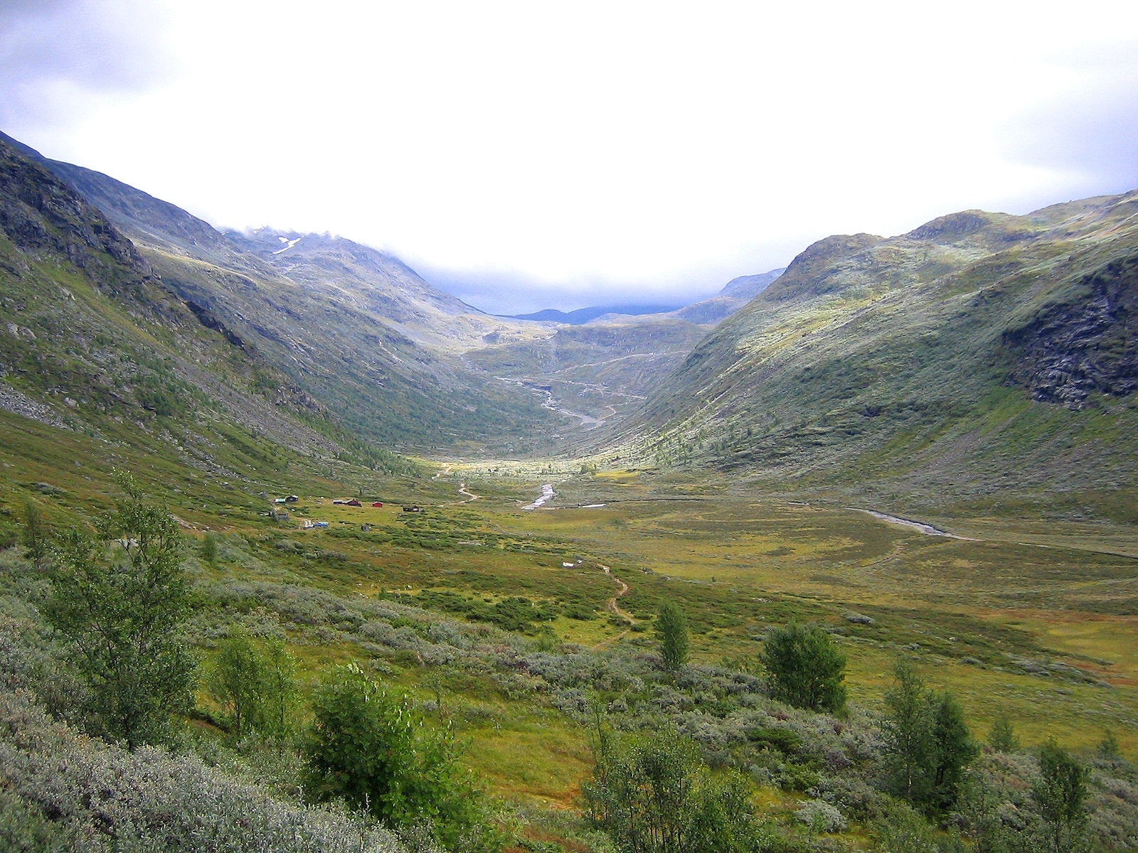 Sognefjell, Norway